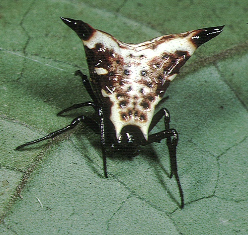 Micrathena lucasi from Ecuador.